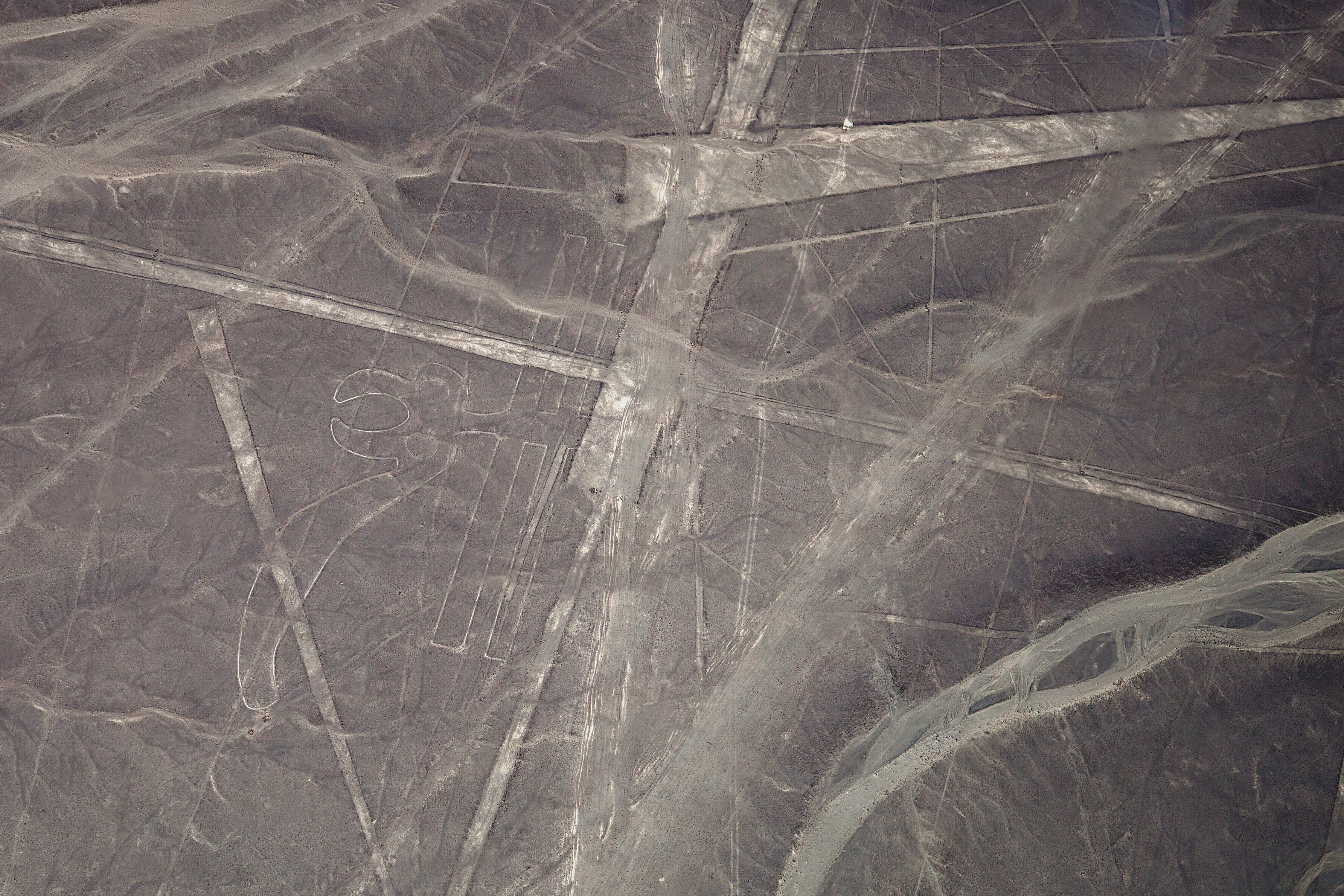 Nazca Lines, parrot